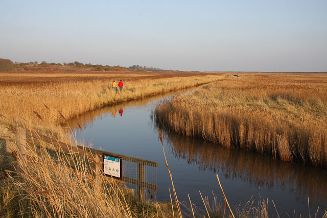 Enjoying the marshes Two walkers following the footpath through Walberswick Reedbeds. Looking over Walberswick Mill sluice, part of the water level control and coastal defence infrastructure within the marshes. At a guess they're not engineers and are enjoying the scenery and light rather than the engineering.